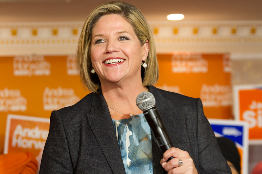 Ontario NDP leader Andrea Horwath